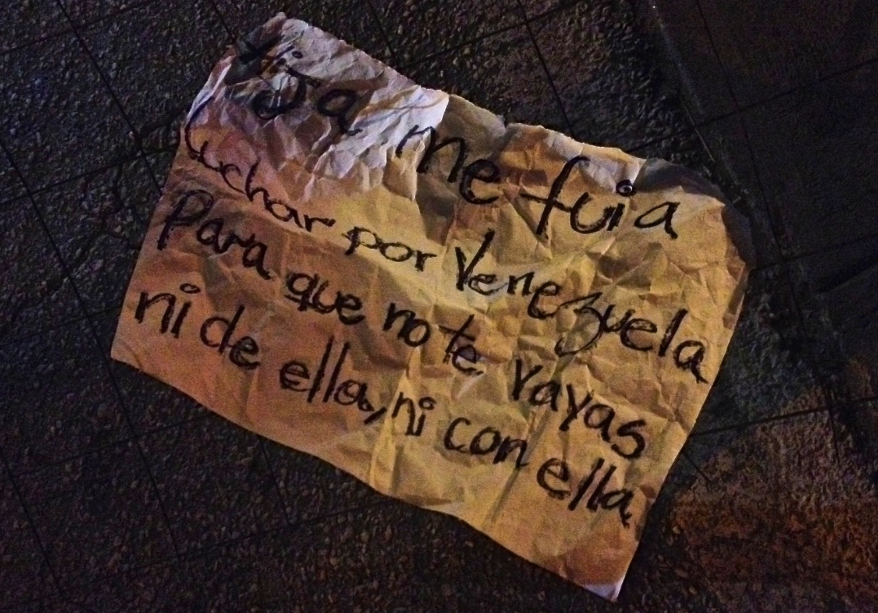 A protestor's sign reading, "Daughter, I went to fight for Venezuela so you don't leave of her, nor with her (die)."